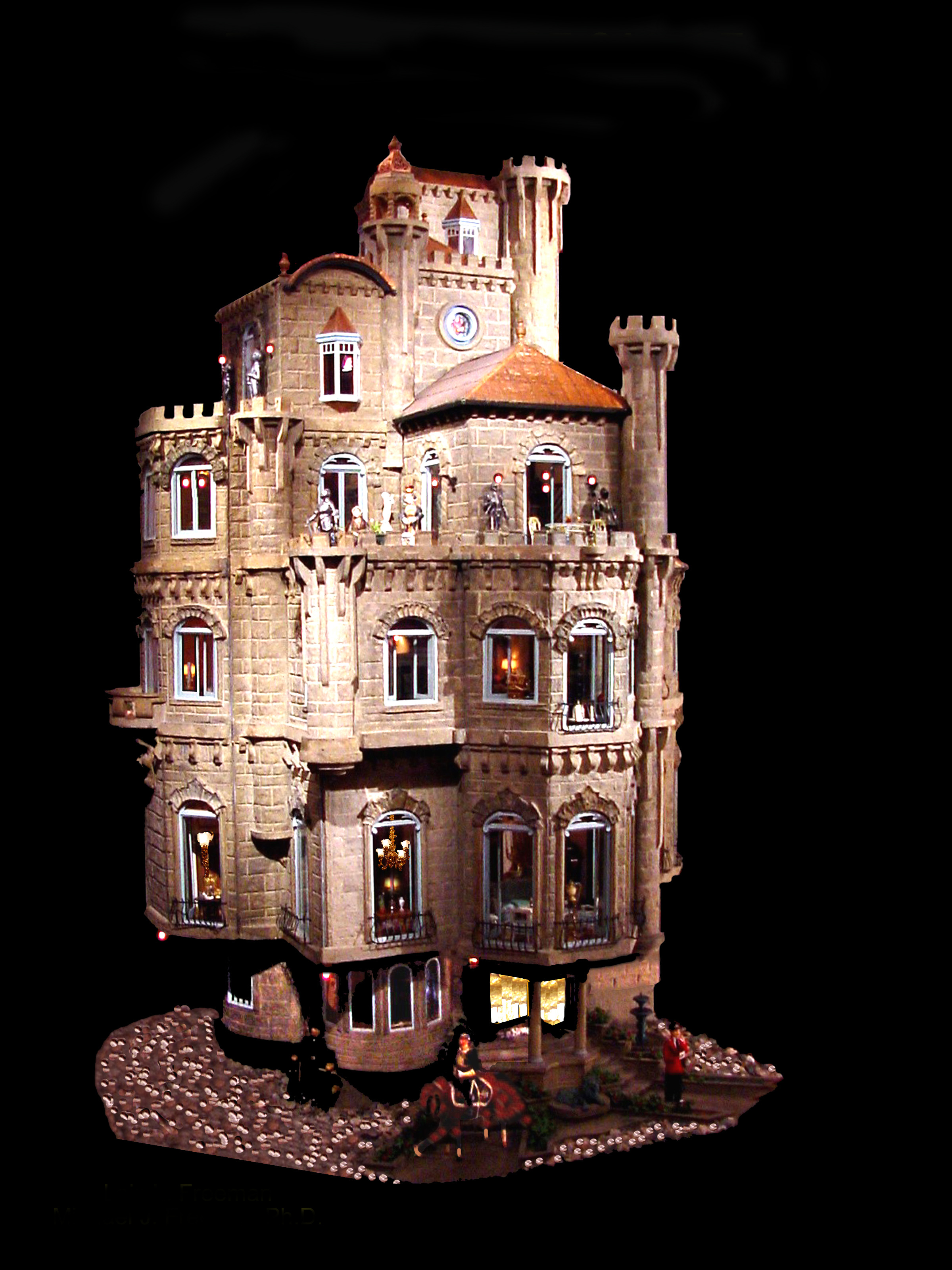 The Castle